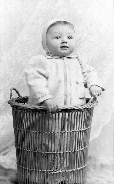 Photograph of Katharine Cornell as a baby Caption reads as follows: The black-eyed little lady of the wicker wastebasket is, of course, Dr. Peter Cornell's handsome young daughter Katharine, who was posing for one of her earliest photographs. She seems to have been, even then, very much Katharine Cornell, with a firm grasp of the basket and the situation in general, with a surprising physical accuracy and singleness of purpose. She reached the inevitable gangling, awkward age a little later, but in all the violently reckless forms of activity in which she delighted, there was an odd, free-swinging grace—the same grace that has been the hallmark of all her acting from Little Women to The Wingless Victory. In the book publication of the Stage serial printing, the photograph is captioned, "At the age of 2".